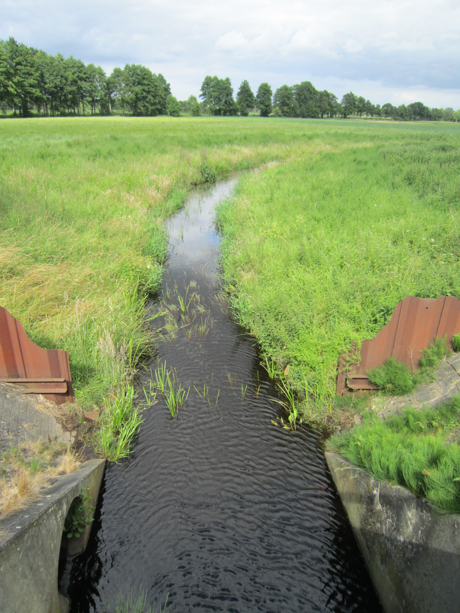 Creek "Dadau" east of the road between Vechta and Diepholz (B 69) in Lower Saxony. On the left: Landkreis Vechta; on the right: Landkreis Diepholz